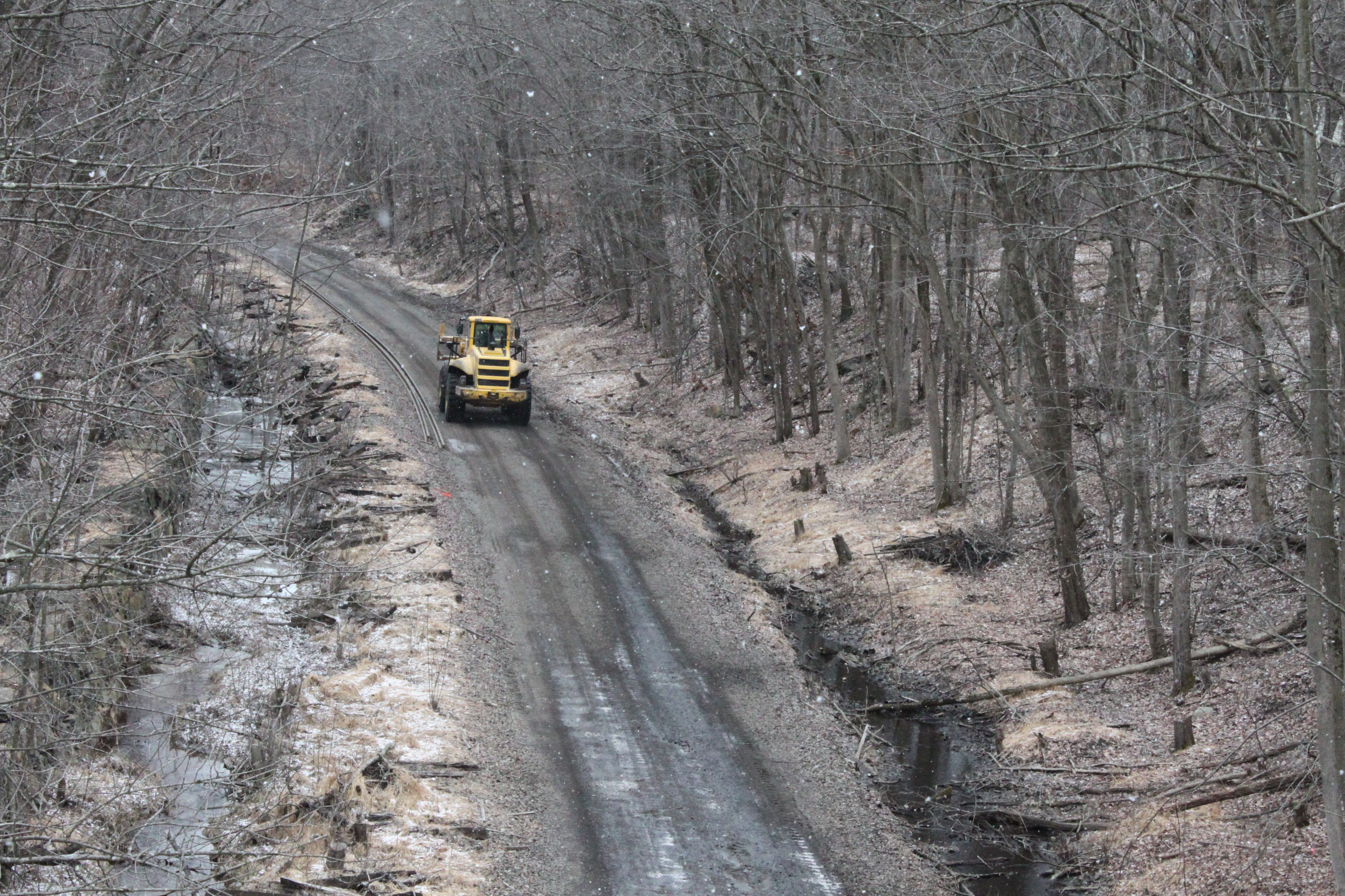 A construction vehicle passing through McMickle Cut on the Lackawanna Cut-Off on January 14, 2012